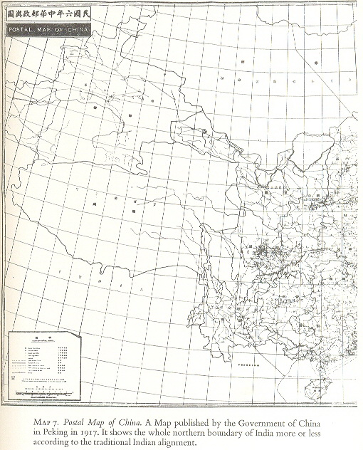 The “Postal map of China”, 1917, an official publication of the Government of China, published at Peking in 1917. The map is reproduced in all “noteworthy” books pertaining to India’s border issue, including “Himalayan Frontiers” by Dorothy Woodman published inter alia by London Barrie and Rockliff The Cresset Press, 1969 at page 81. Uploaded originally 08:16, 18 February 2009 Hindutashravi (talk | contribs)